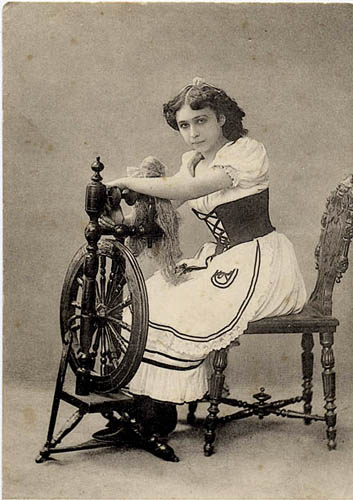 Sofia Fedorova as Lise in Alexander Gorsky's production of La Fille Mal Gardée. Moscow, circa 1915. cf. 1.